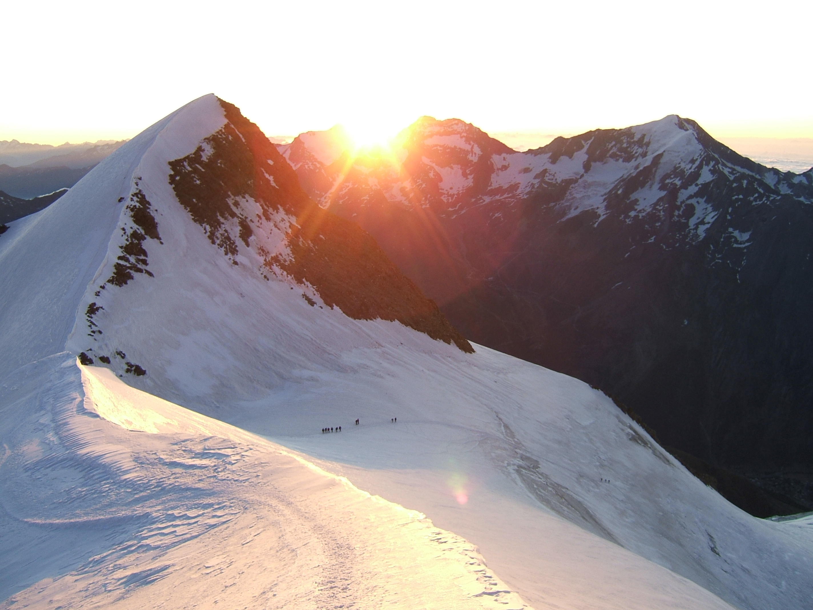 Ulrichshorn from Southwest at sunrise, from Northeast Ridge of Nadelhorn. Sun shines through Fletschjoch between Fletschhorn (left) and Lagginhorn, rightmost Weissmies.